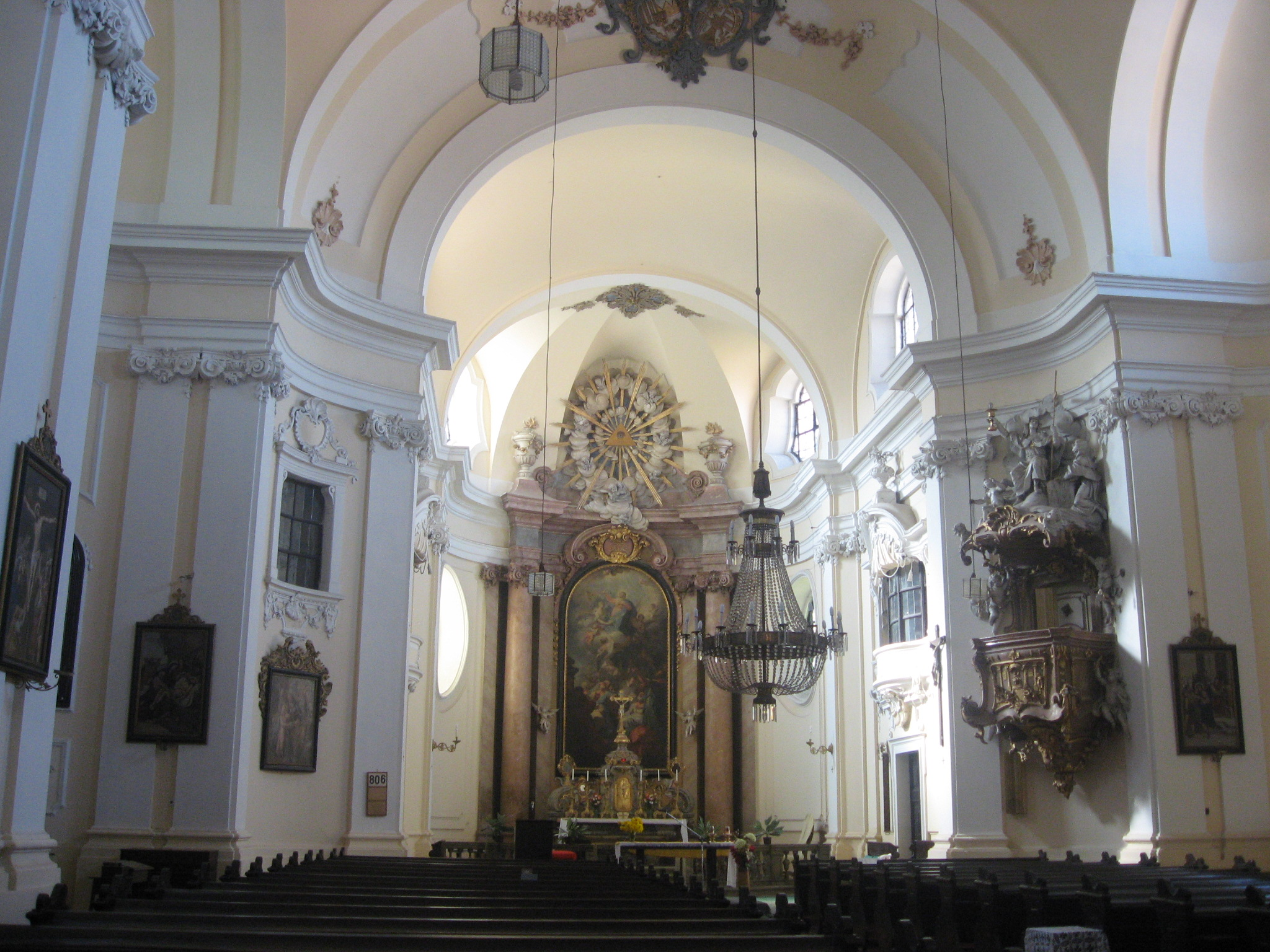 Interior of the Church of the Assumption in Postoloprty, Louny District, Czech Republic